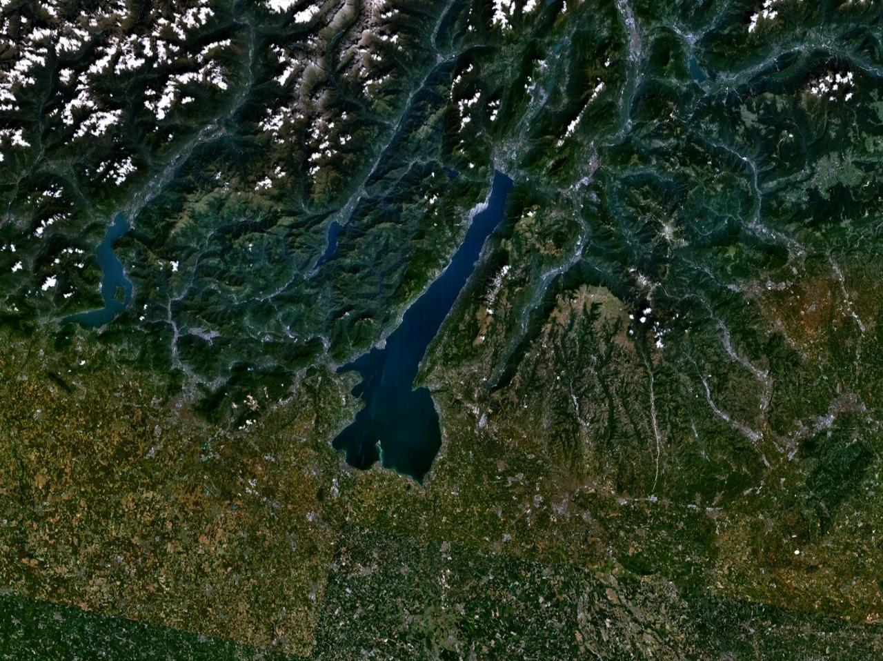 Lake Garda